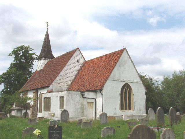 St Mary's Church, Northolt, Middlesex This 13th Century church is at the historic centre of the village of Northolt. There is still a village green nearby, and fields and open land to the South, although all around are housing estates.